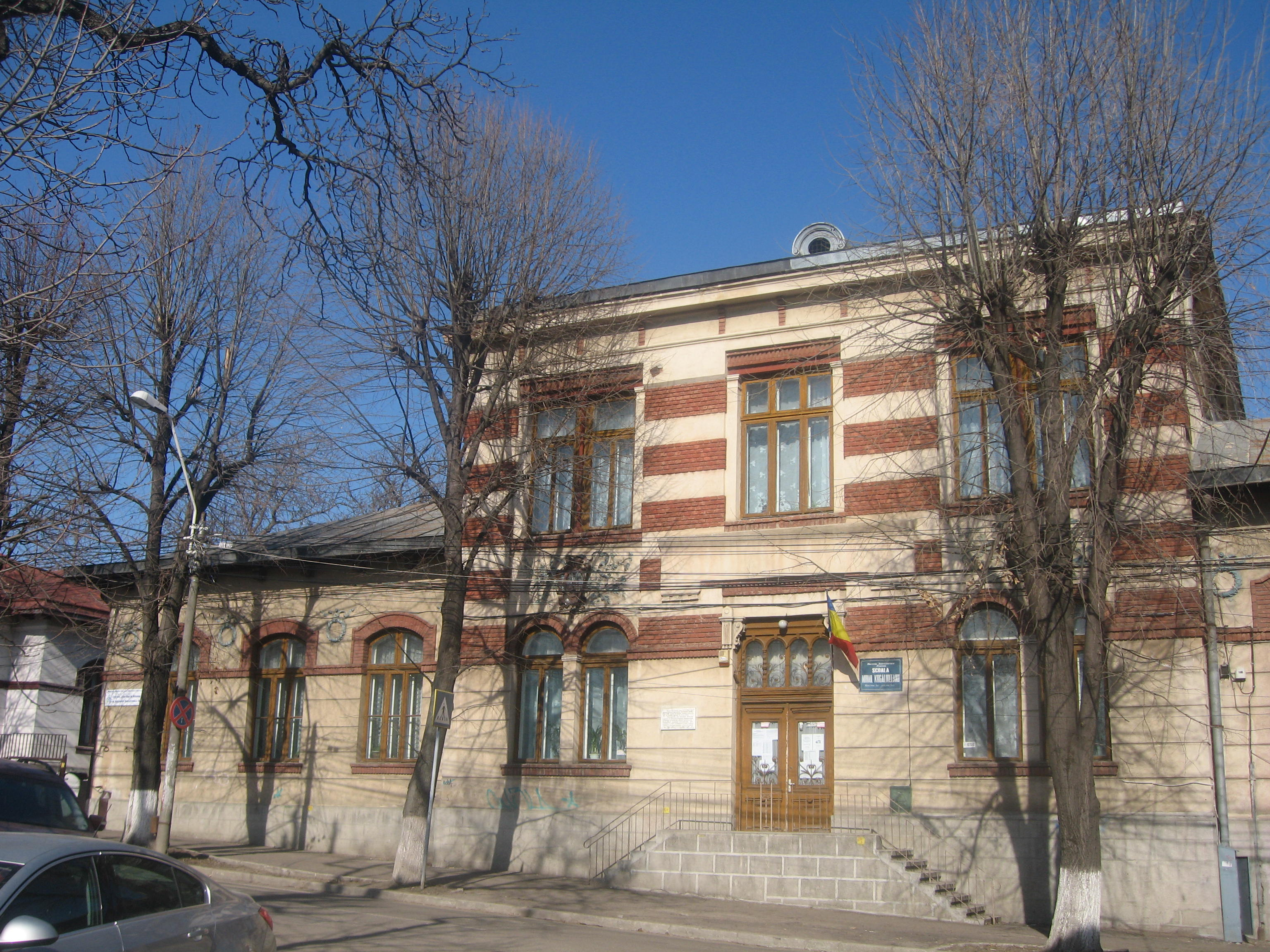 Mihail Kogălniceanu School in Iaşi (Romania), a building historical monument